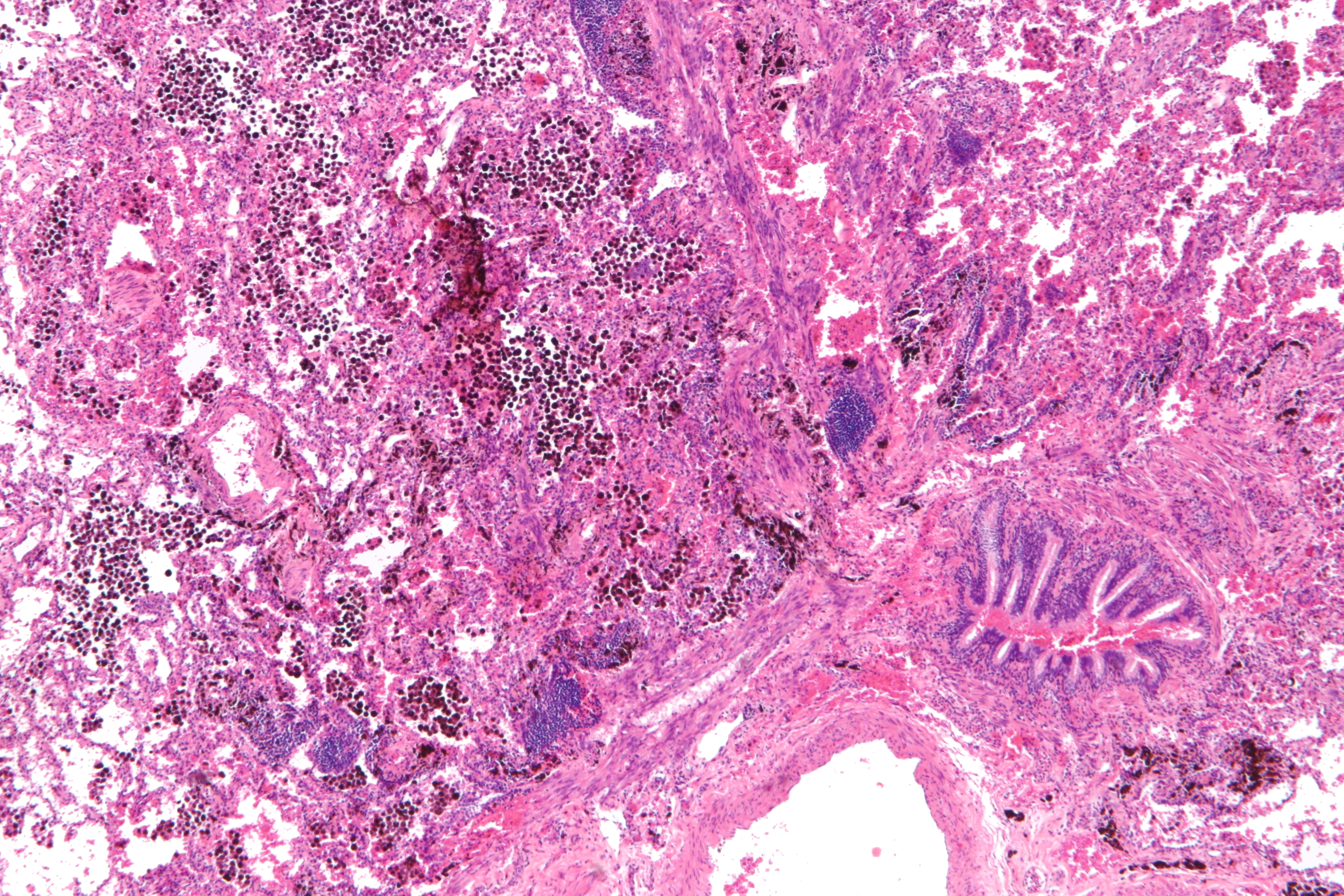 Low magnification micrograph of a (chronic) pulmonary haemorrhage, also pulmonary hemorrhage, lung bleed, bleeding in the lung. H&E stain. Features: Abundant hemosiderin-laden alveolar macrophages. Alveolar red blood cells. See also Intermed. mag. High mag. Very high mag.